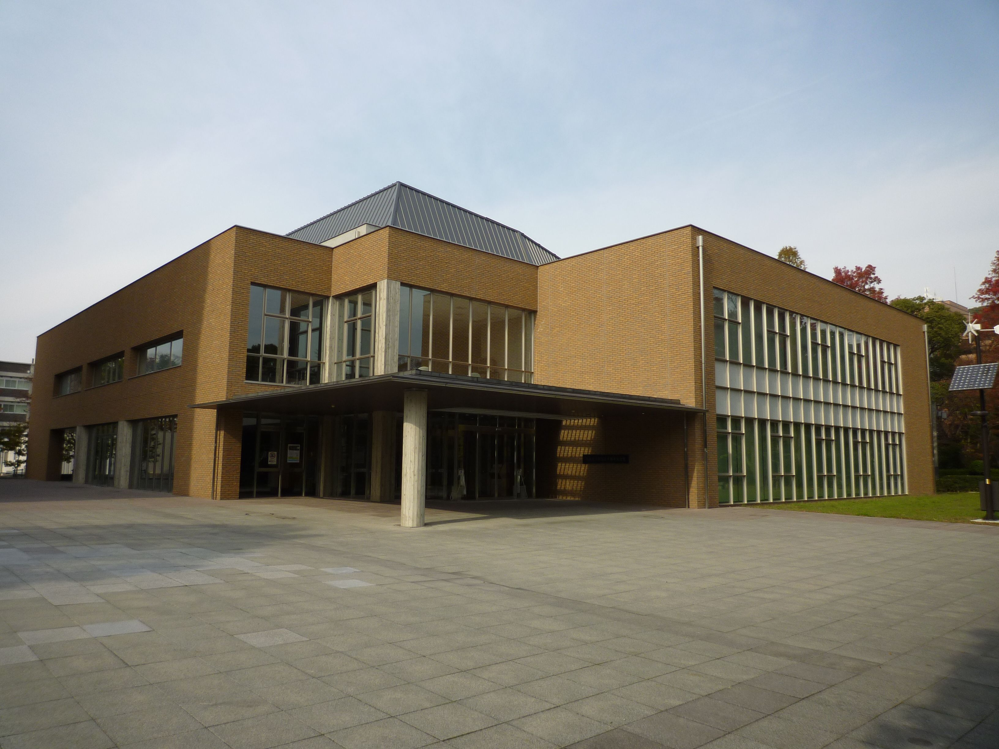 Okayama University 50th Anniversary Hall（Kita-ku, Okayama City, JAPAN. Okayama University Tsushima Campus）